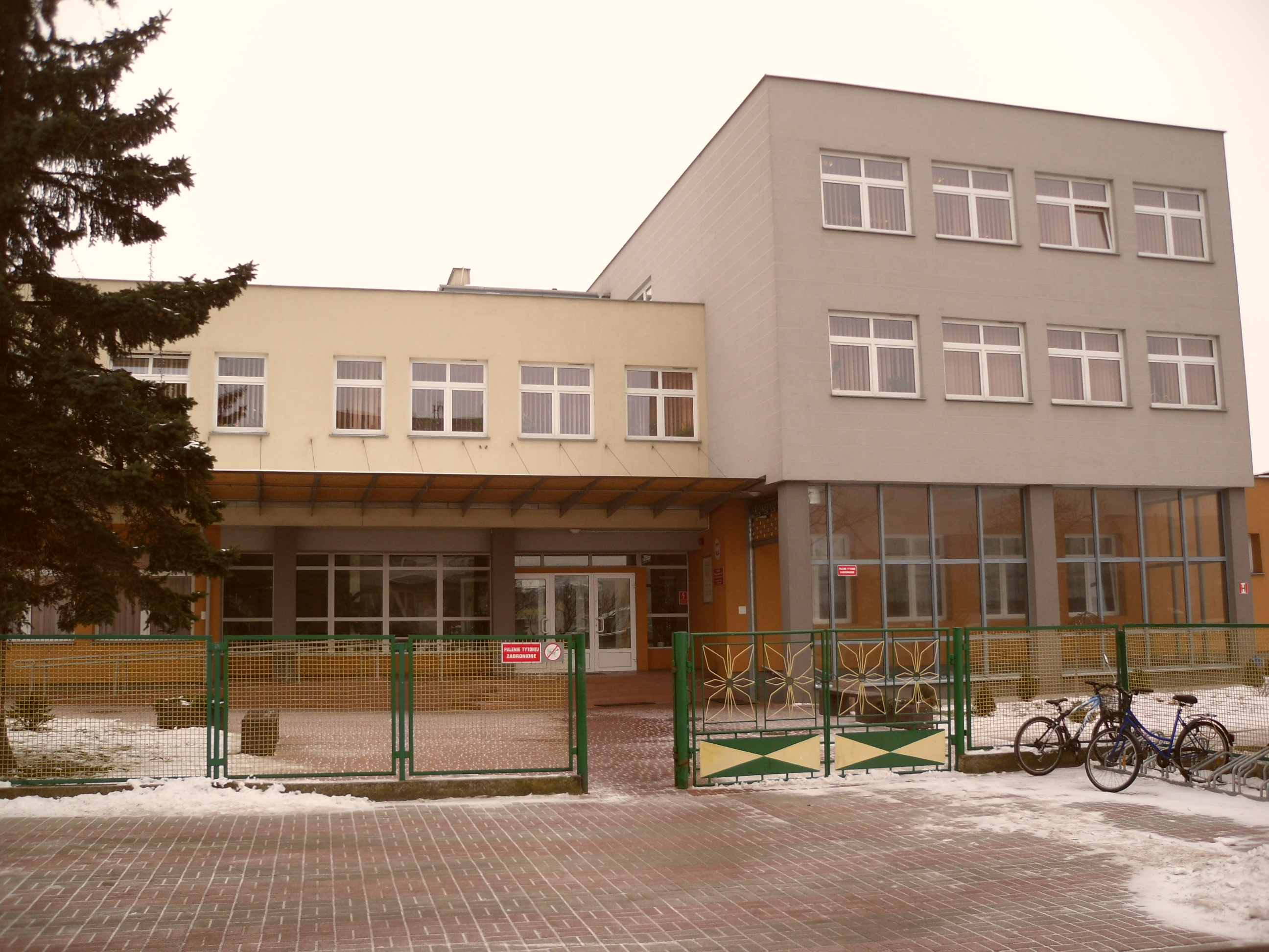 Sochaczew - Primary School